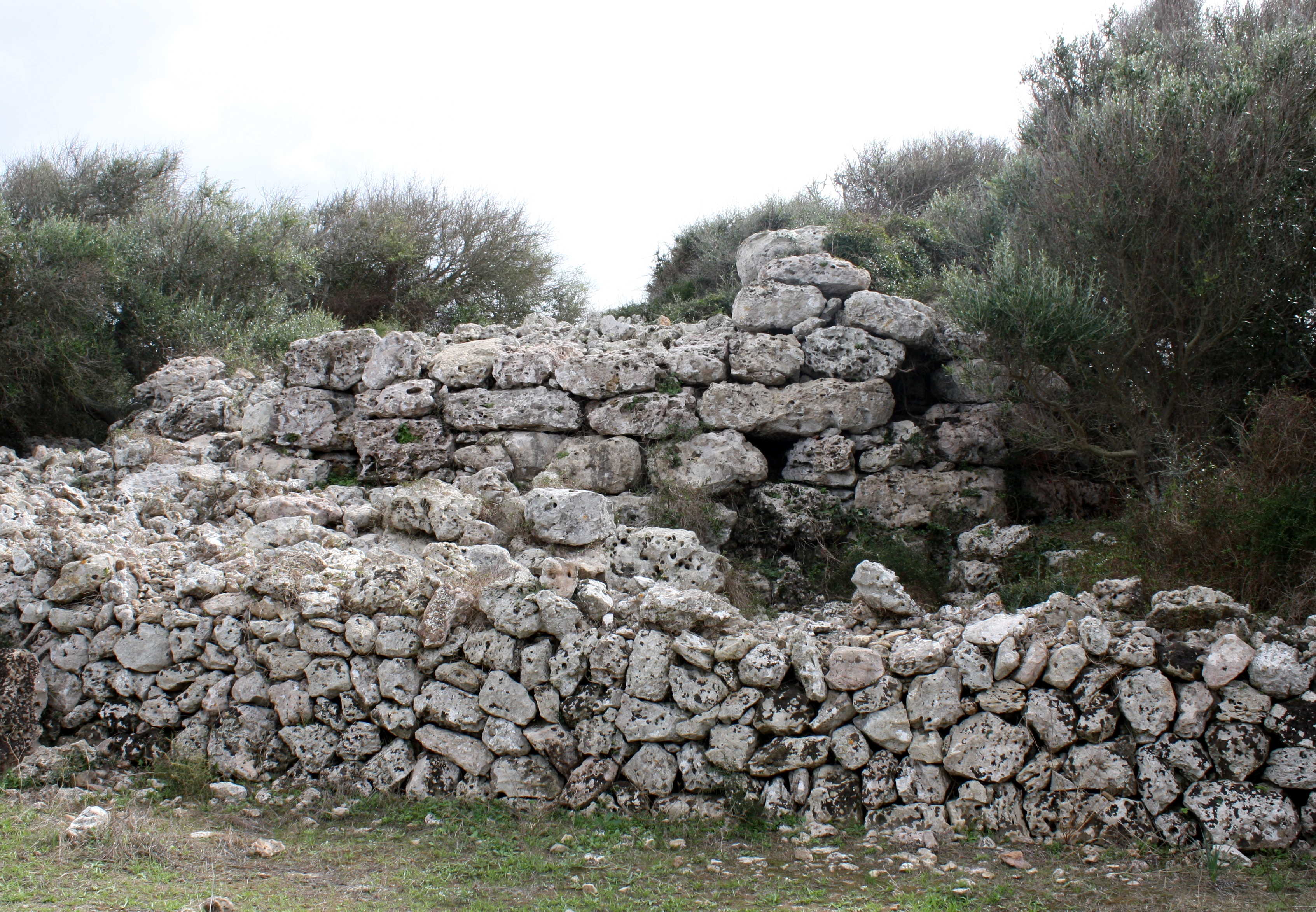 Talayot of the prehistoric settlement Torretrencada, Ciutadella, Minorca.